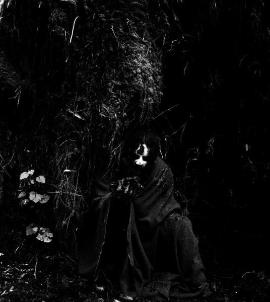 Two Hunters photo shoot. By Carli Davidson